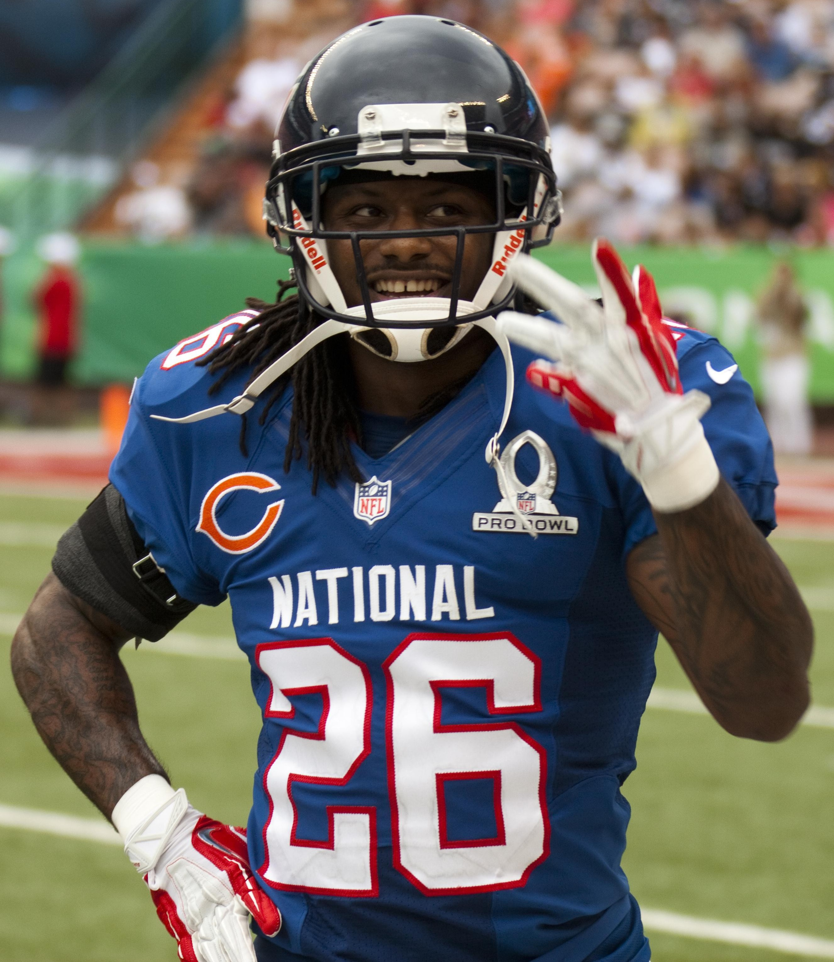 Chicago Bears cornerback Tim Jennings responds to fans who were shouting at him at the end of a National Football Conference defensive series during the 2013 Pro Bowl at Aloha Stadium, Jan. 27.